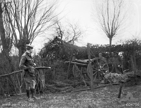 AWM caption : "Western Front: Western Front (France), Nord Region (France), Nieppe Forest. Two Australian soldiers and an officer, all unidentified, at a camouflaged gun position of the 1st Australian Field Artillery Brigade. The position has been camouflaged with camouflage netting and branches." Comment : the gun is a QF 18 pounder.